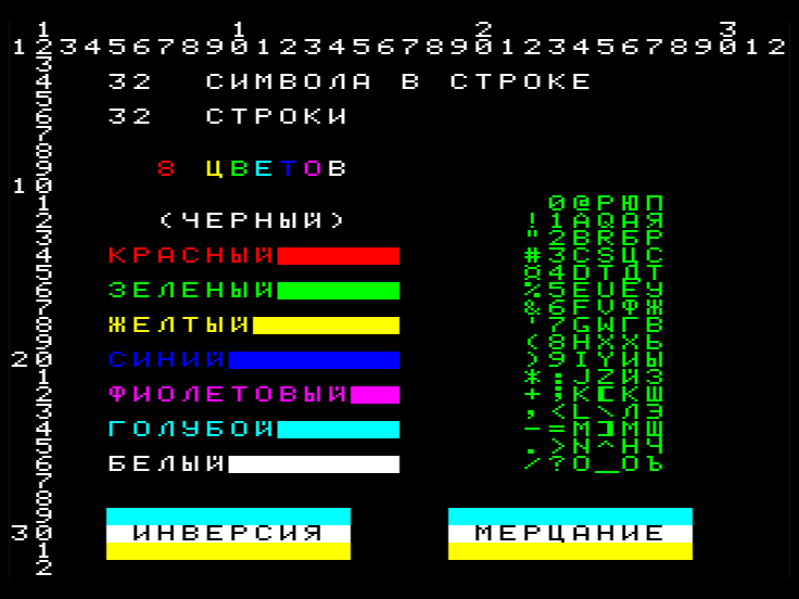 Agat Computer Symbol Screen 32x32